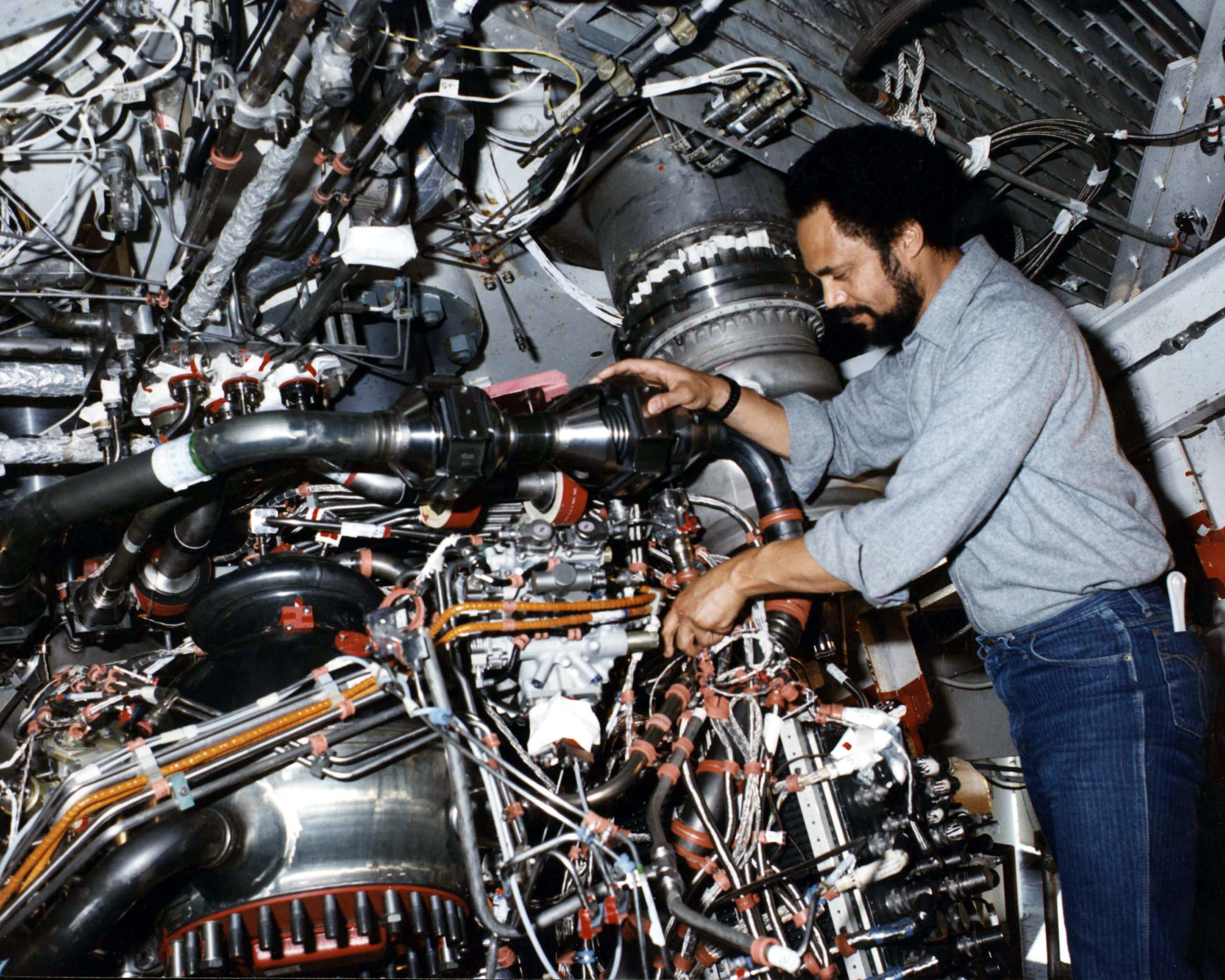 A technician performs maintenance on a Space Shuttle Main Engine, (SSME) to prepare it for testing at the John C. Stennis Space Center.